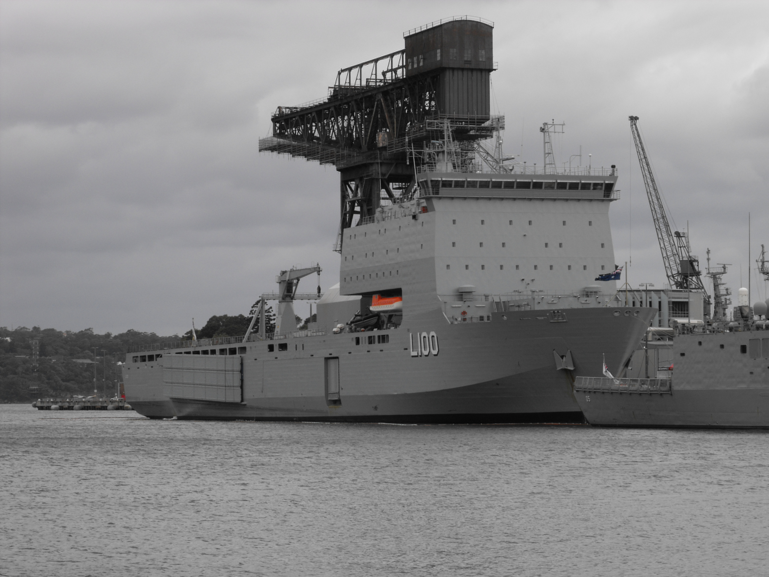 Starboard bow view of HMAS Choules, alongside at Fleet Base East